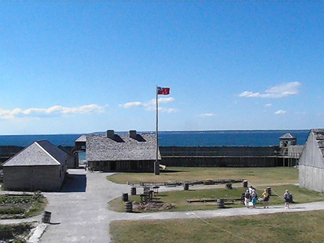 Fort Michilimackinac, in Mackinac City, Michigan, United States, with Lake Michigan in the background.